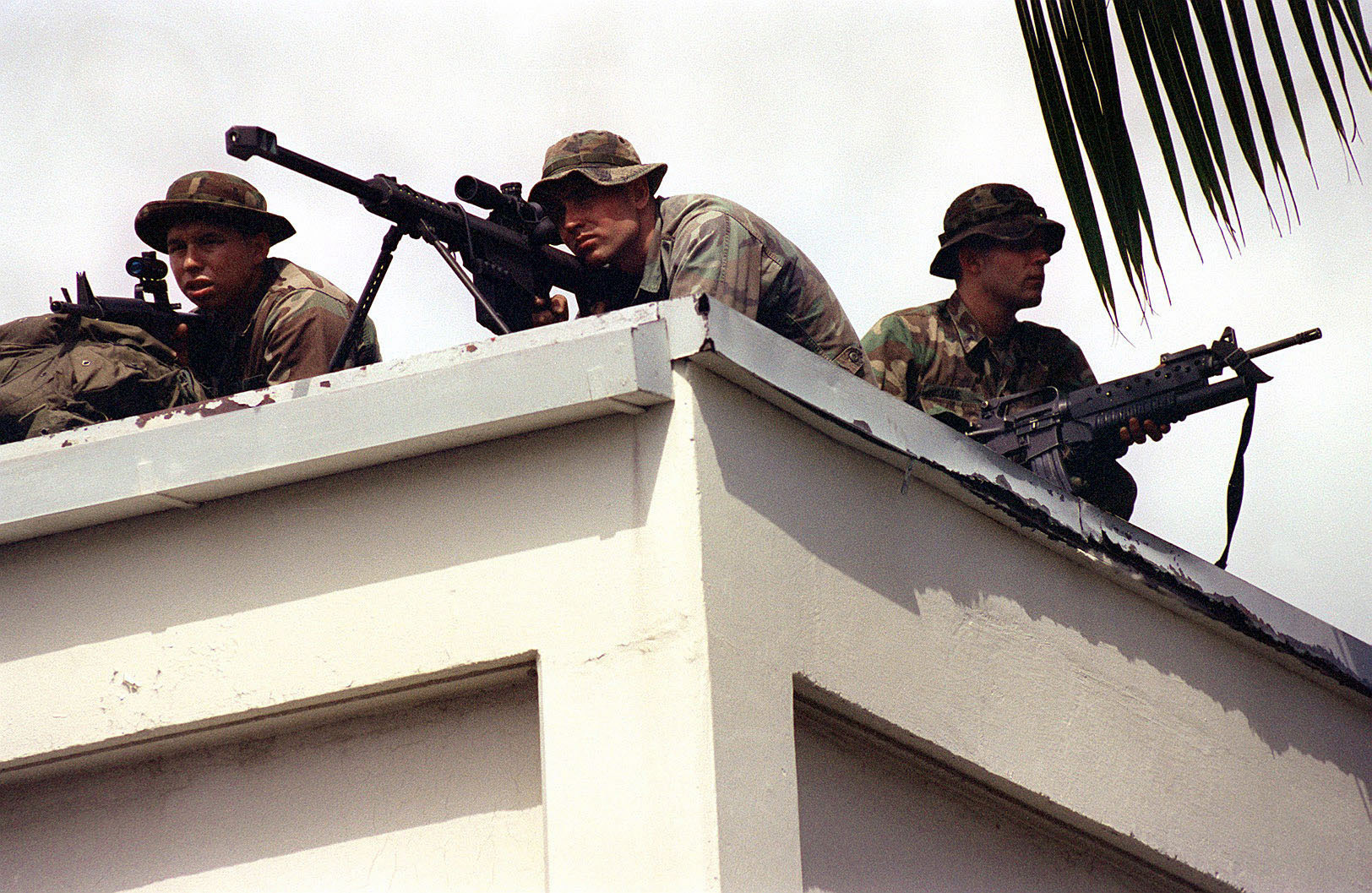 From atop a building designated as the American embassy US Marine Corps Corporal (CPL) Eric Folstad looks through the scope of a (12.7mm) .50 in Barrett Light Fifty Model 82A1 sniping rifle. (left) mans the a 5.56mm M16A2 assault rifle with a mounted scope and Lance Corporal (LCPL) George Boue carries the 5.56mm M16A2 with M203 grenade launcher attached. At Kaneohe Bay Marine Corps Station (MCS), HI Marines from 11th Marine Expeditionary Unit (MEU) Camp Pendleton, CA conducted training exercises in Hawaii as part of Operation RIMPAC 96. Location: MARINE CORPS AIR STATION KANEOHE, HAWAII (HI) UNITED STATES OF AMERICA (USA)